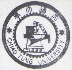 Emblem of SJTU (CHIAO TUNG UNIVERSITY) in 1940.